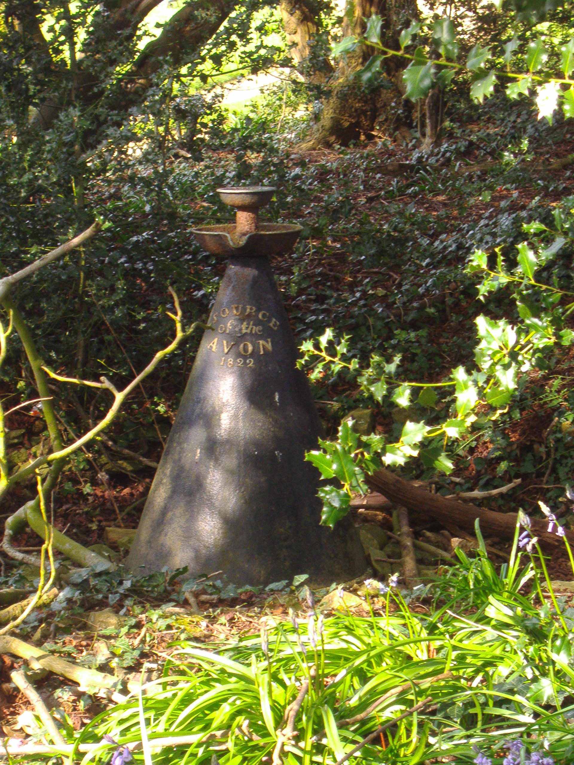 A Digital Photograph of the Head of the River Avon